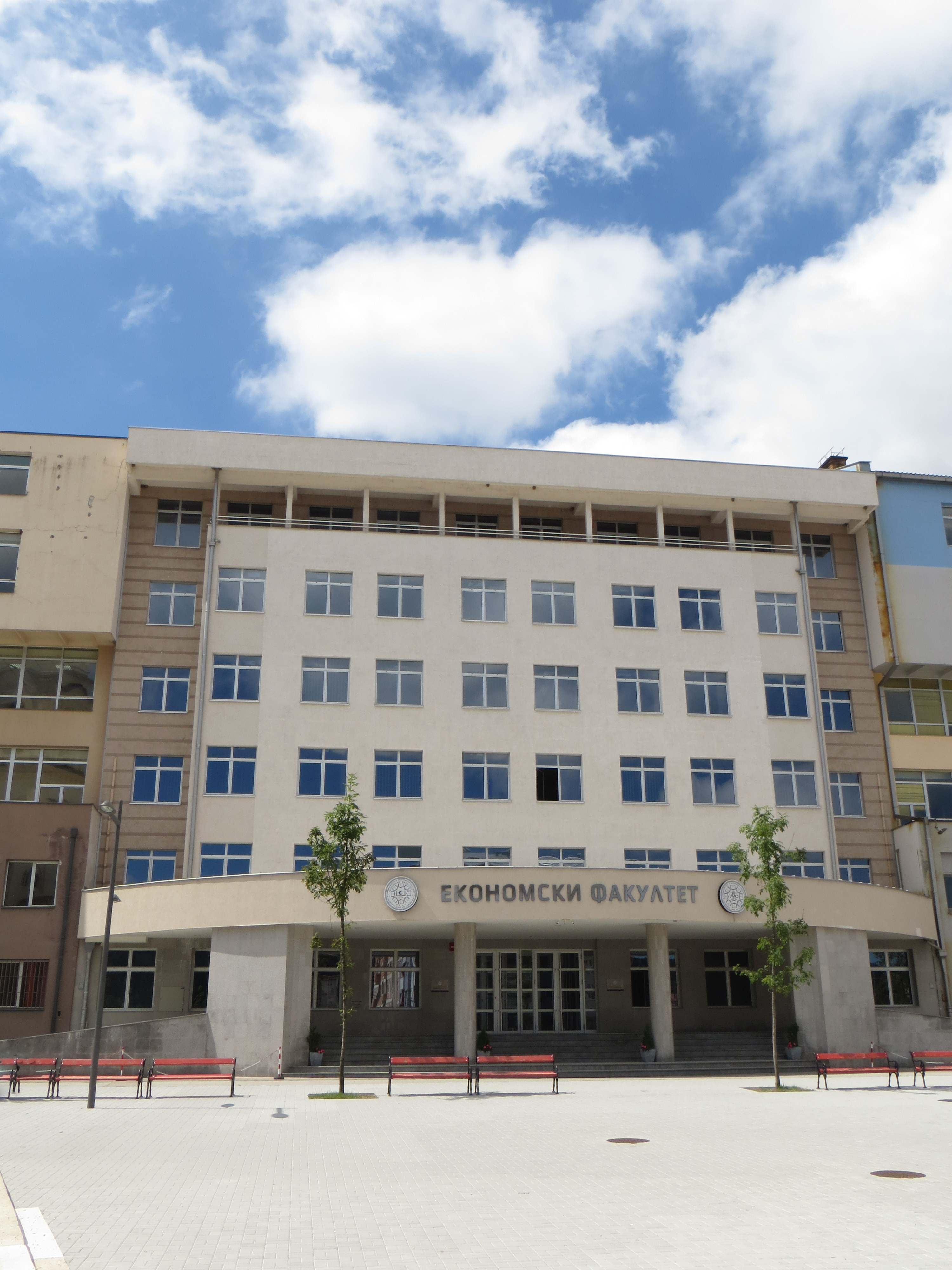 University building, Pale